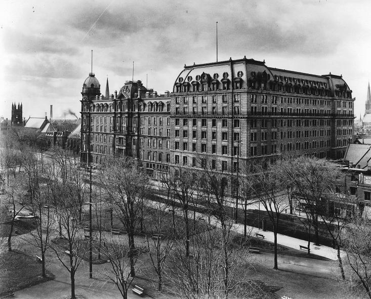 Windsor Hotel and extension, Peel Street, Montreal, Canada.